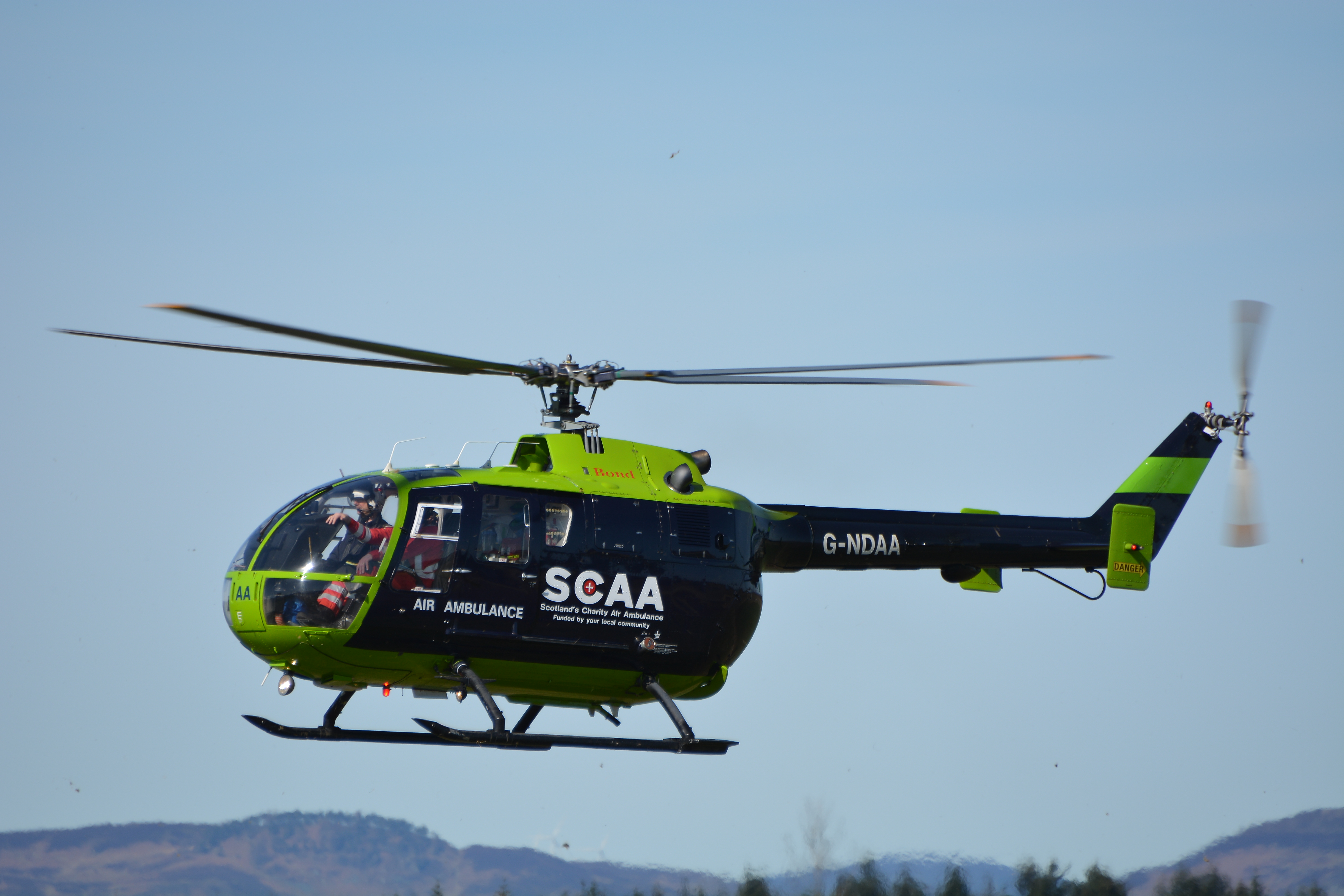 Picture taken 05/04/2015 Perth airport (EGPT)